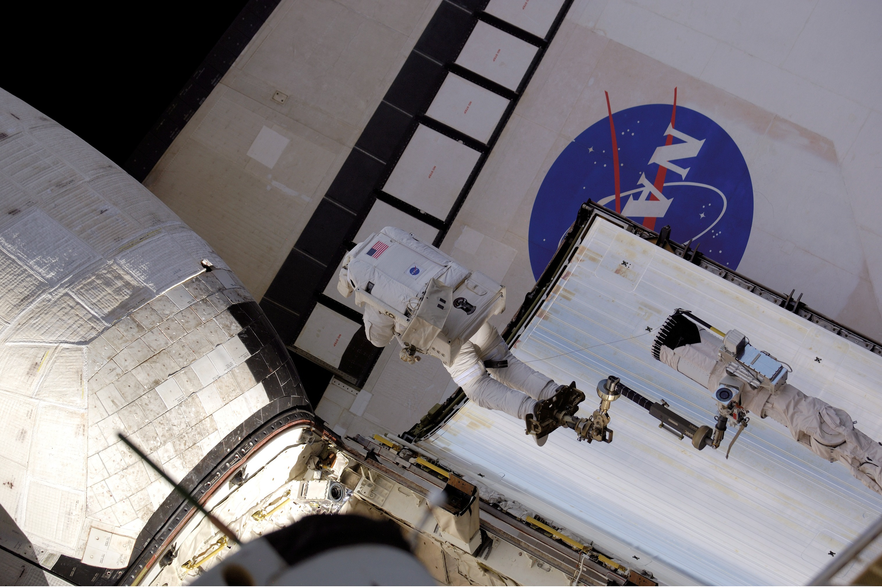 Anchored to a foot restraint on Space Shuttle Atlantis' remote manipulator system (RMS) robotic arm, astronaut John "Danny" Olivas, STS-117 mission specialist, moves toward Atlantis' port orbital maneuvering system (OMS) pod that was damaged during the shuttle's climb to orbit last week. During the repair, Olivas pushed the turned up portion of the thermal blanket back into position, used a medical stapler to secure the layers of the blanket, and pinned it in place against adjacent thermal tile.